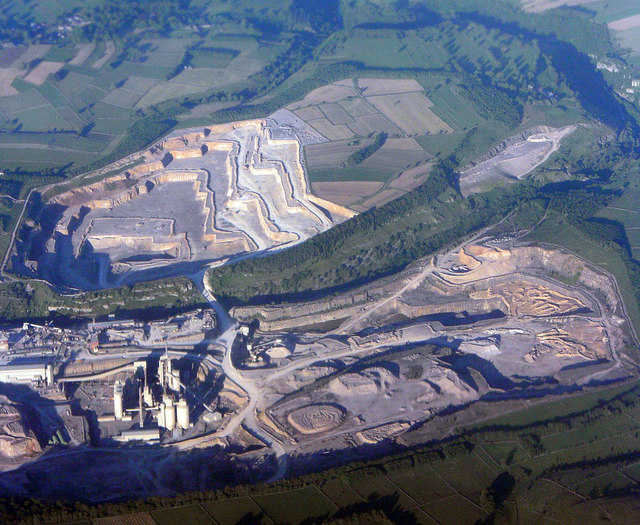 Tunstead Quarry View of Tarmac's Tunstead Limestone Quarry and Cement Works as seen from the air. Great Rocks Dale, clearly visible in the centre of the picture, separates the two main areas of the quarry.